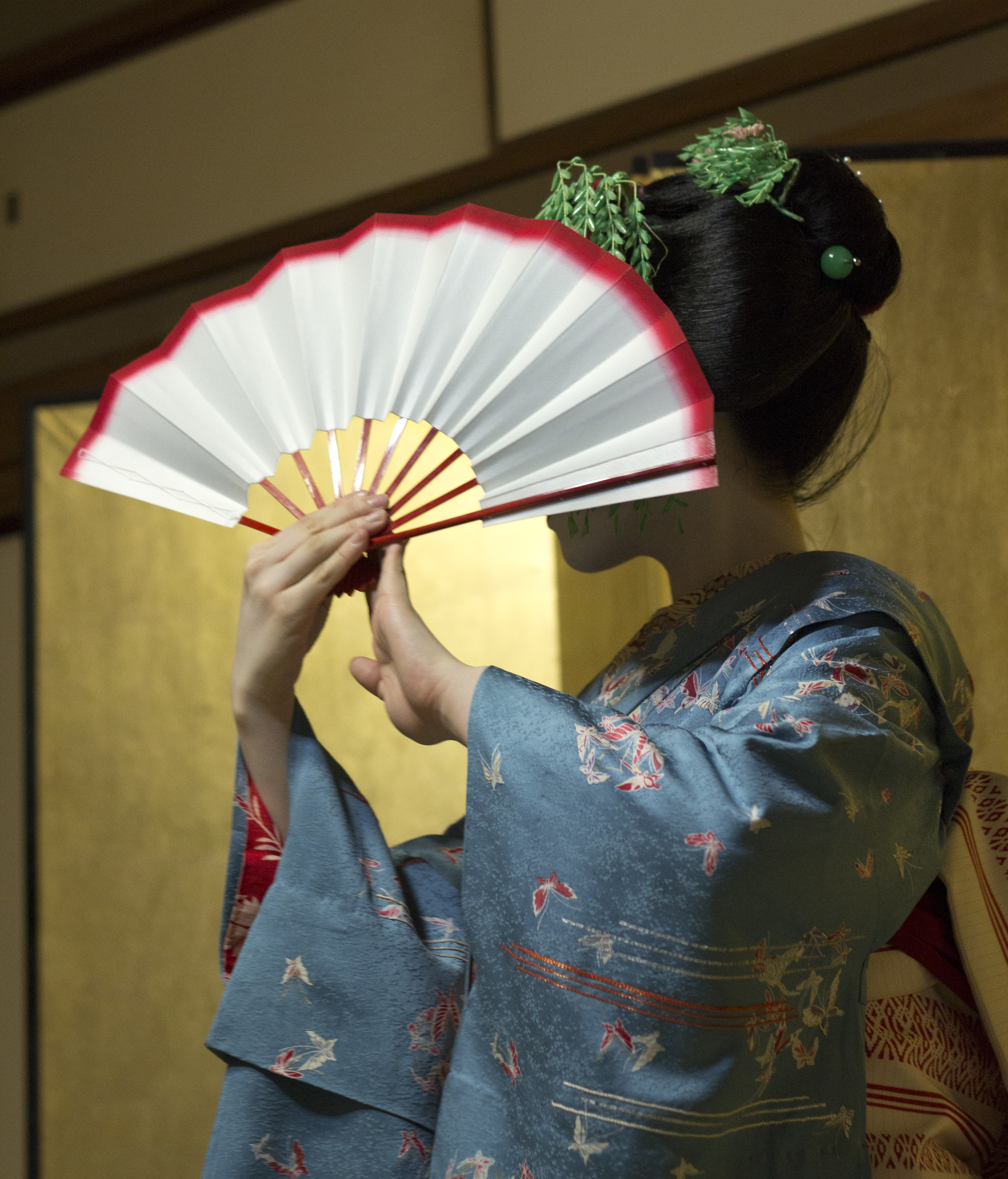 Maiko Tomitsuyu doing a private dance performance at an ochaya.